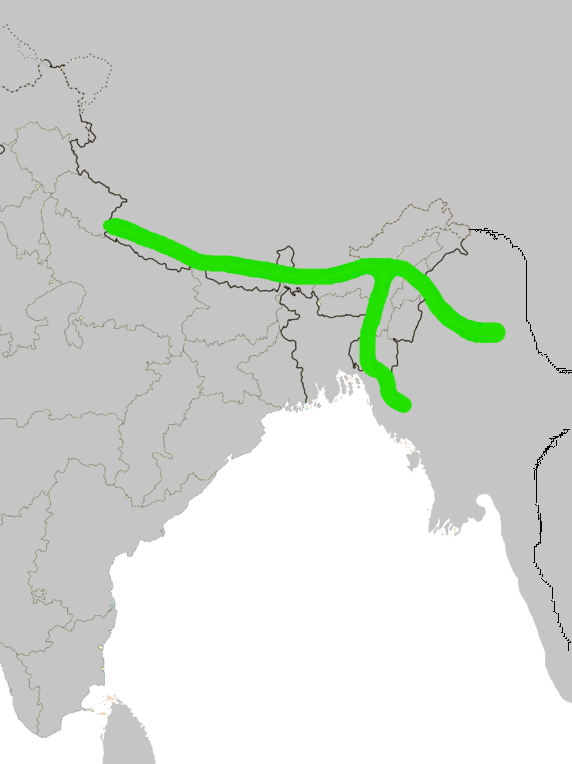 Approximate map of the range of Nepal House Martin Delichon nepalense Data from Turner, Angela K; Rose, Chris (1989) Swallows and Martins of the World : an identification guide and handbook, Houghton Mifflin, pp. 80 ISBN 0-395-51174-7 and Rasmussen, Pamela C. and John C. Anderton (2005) Birds of South Asia. The Ripley Guide plate 99.8 ISBN 84-87334-67-9 mapped onto 514px-India-locator-map-blank.svg